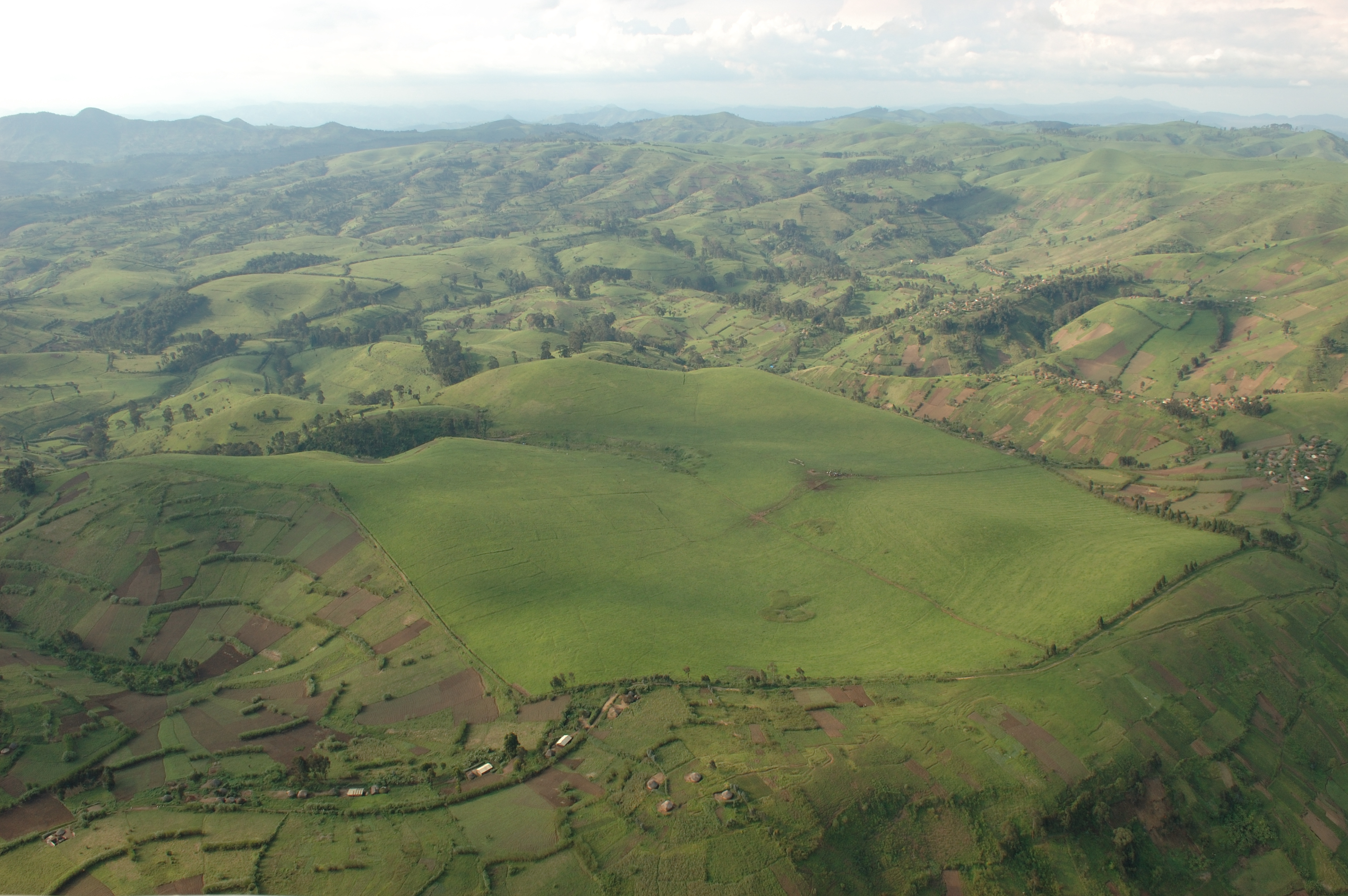 Flying back from jungle covered Walikale the contrast with Masisi was sharp. The late afternoon sun highlighted the lines of old fields in what are now pastures for cattle. The competition for land between herders and farmers is one of the factors feeding the instability in North Kivu.